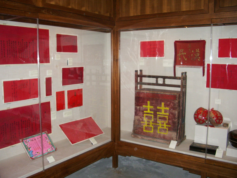 Hong Kong Museum of History. Chinese traditions dictate that marriage is the most important event of one's life. A marriage is not legitimate unless it goes through six formal rites (六禮). Three letters (三書), on red paper, document and confirm the rites. The term "three letters, six rites" (三書六禮) is used as a singular term to refer to the full formalities of a Chinese marriage. As in other traditional societies (especially true in Confucian East Asia), marriage was based on the status of the families involved for the purpose of procreation, and usually was arranged via a matchmaker, although love could be a minor factor. Marriage based primarily/solely on love is a very modern, Western concept, and even now, usually expects approval from the parents. Something to think about, as traditional Asian immigrants, led by William Tam, a Christian preacher who was a native of Hong Kong, had re-banned California's gay marriage (which had been the culmination of a "marry the one you love" philosophy) just a month prior via a voter referendum. I had spent the previous few weeks fuming about that development in South Korea, as Korean-Americans were especially instrumental in that ban.